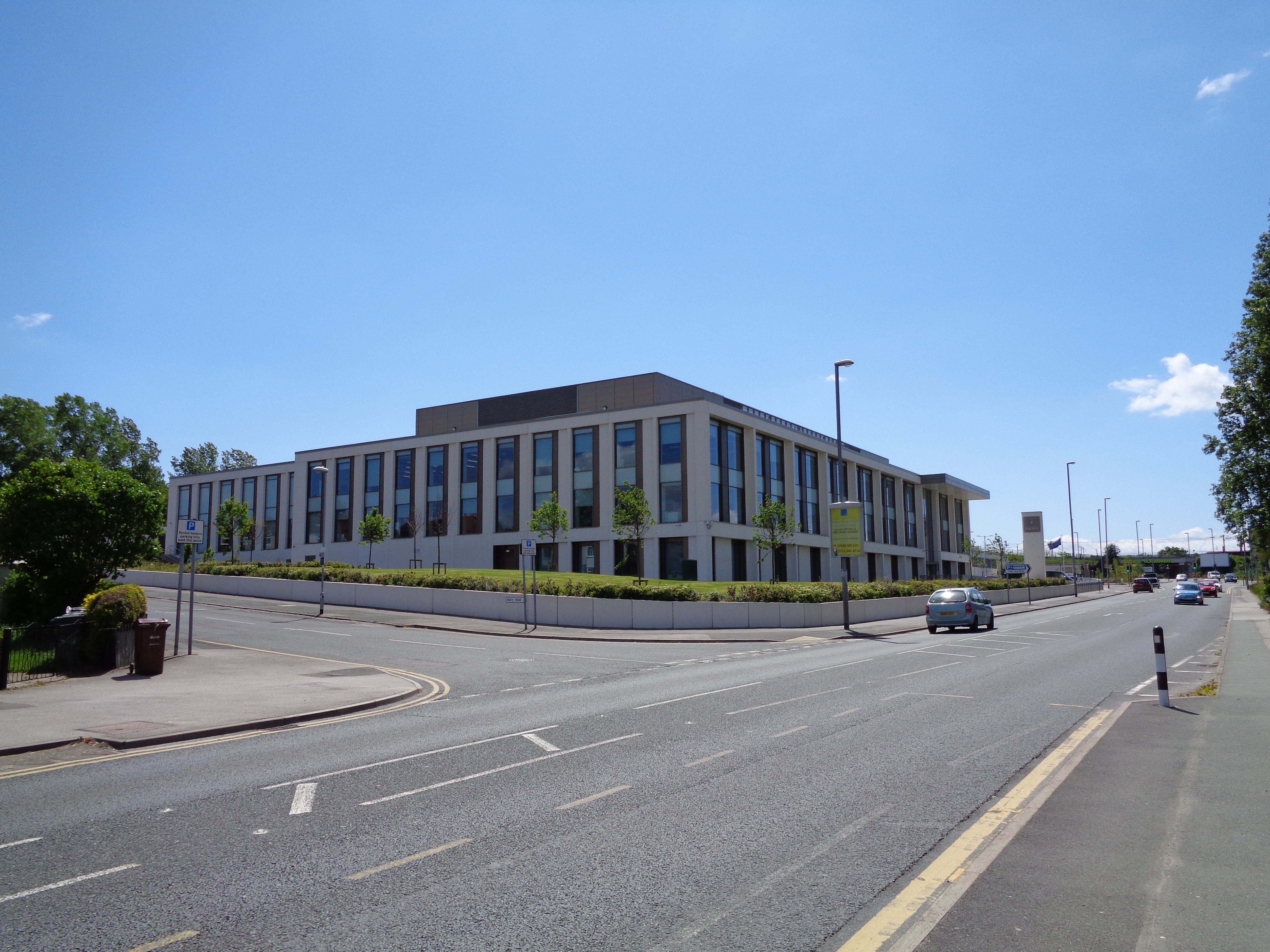 Elland Road police station, Leeds, West Yorkshire. Taken on the afternoon of Sunday the 7th of June 2015.